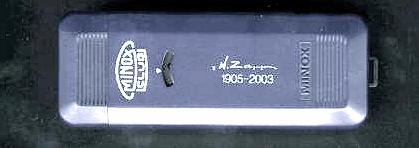 限量版德国密诺斯学会里加兰EC Limited edition German Minox Club Riga Blue EC 唐戈摄影.